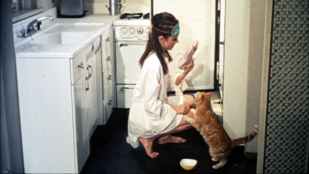 Audrey Hepburn at Breakfast at Tiffany's.